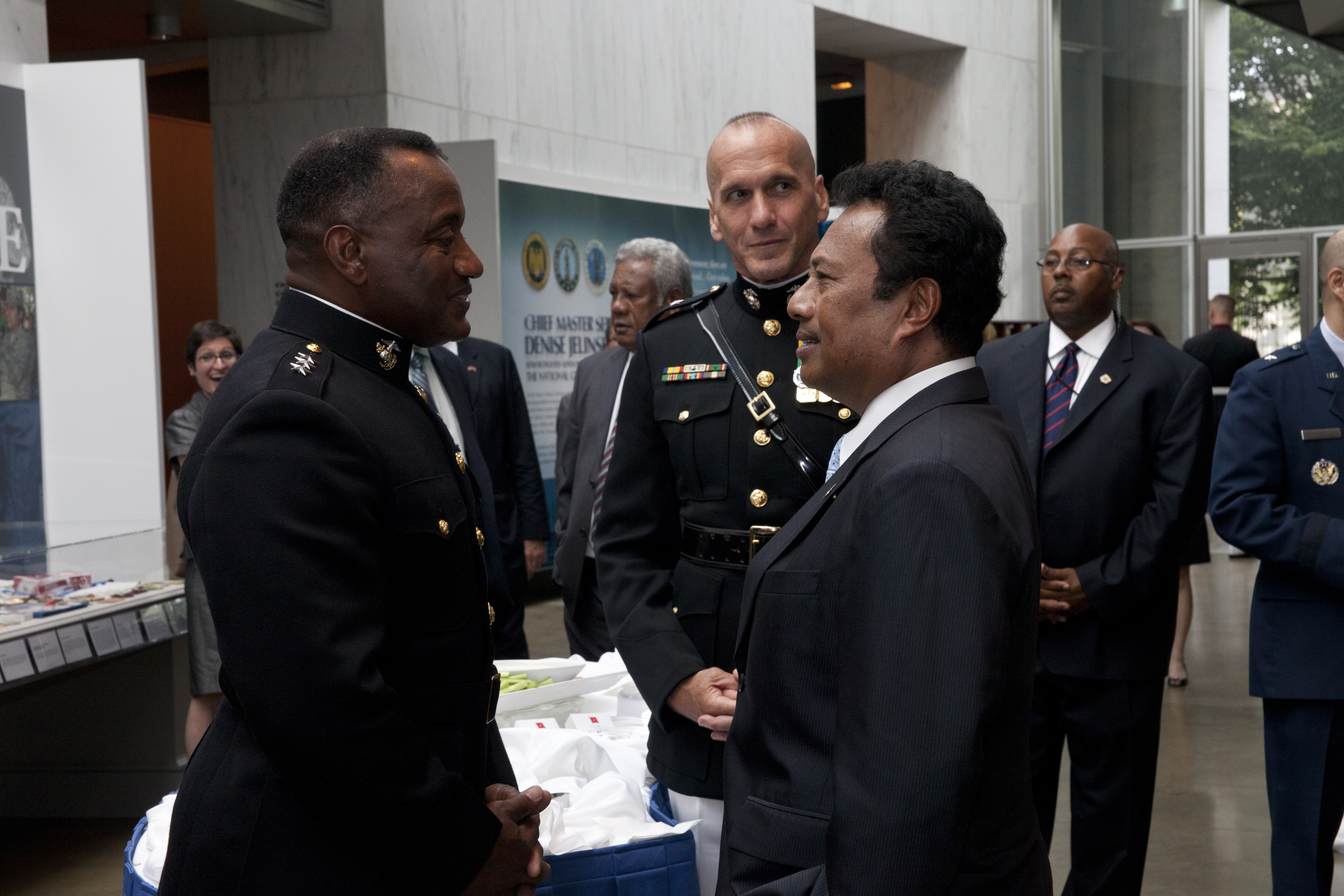 U.S. Marine Corps Lt. Gen. Willie J. Williams, left, the director of Marine Corps Staff, speaks with Thomas Esang Remengesau Jr., the president of Palau, during a Sunset Parade reception June 11, 2013, at the Women in Military Service for America Memorial at Arlington National Cemetery in Arlington, Va. Sunset Parades are held at the Marine Corps War Memorial in Arlington every Tuesday during the summer months. (U.S. Marine Corps photo by Sgt. Alvin Williams/Released)